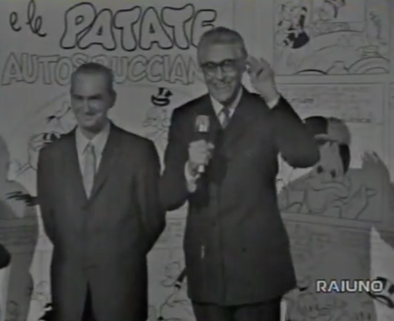 Luigi Silori interviews Mario Gentilini, Canzonissima, RAI, Italy 1968